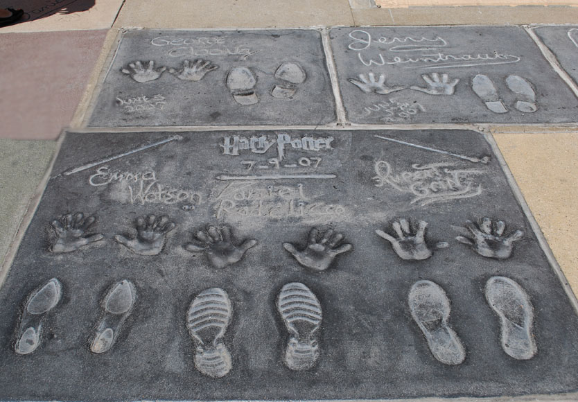 Foot, hand and wand imprints of Emma Watson, Daniel Radcliffe and Rupert Grint outside Grauman's Chineese Theatre.